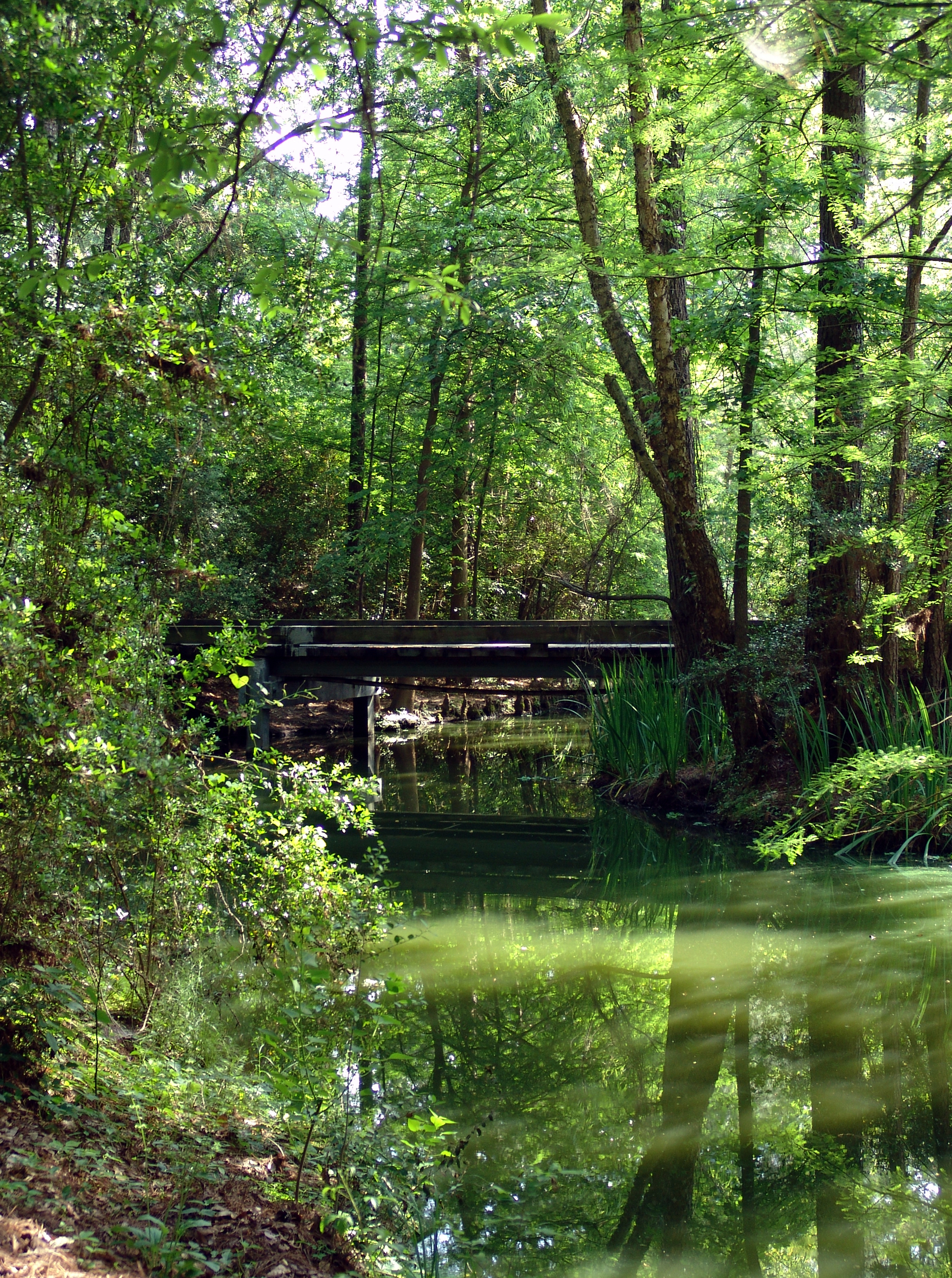 A bridge in The Woodlands, Texas. The bridge is part of a vast system of trails.